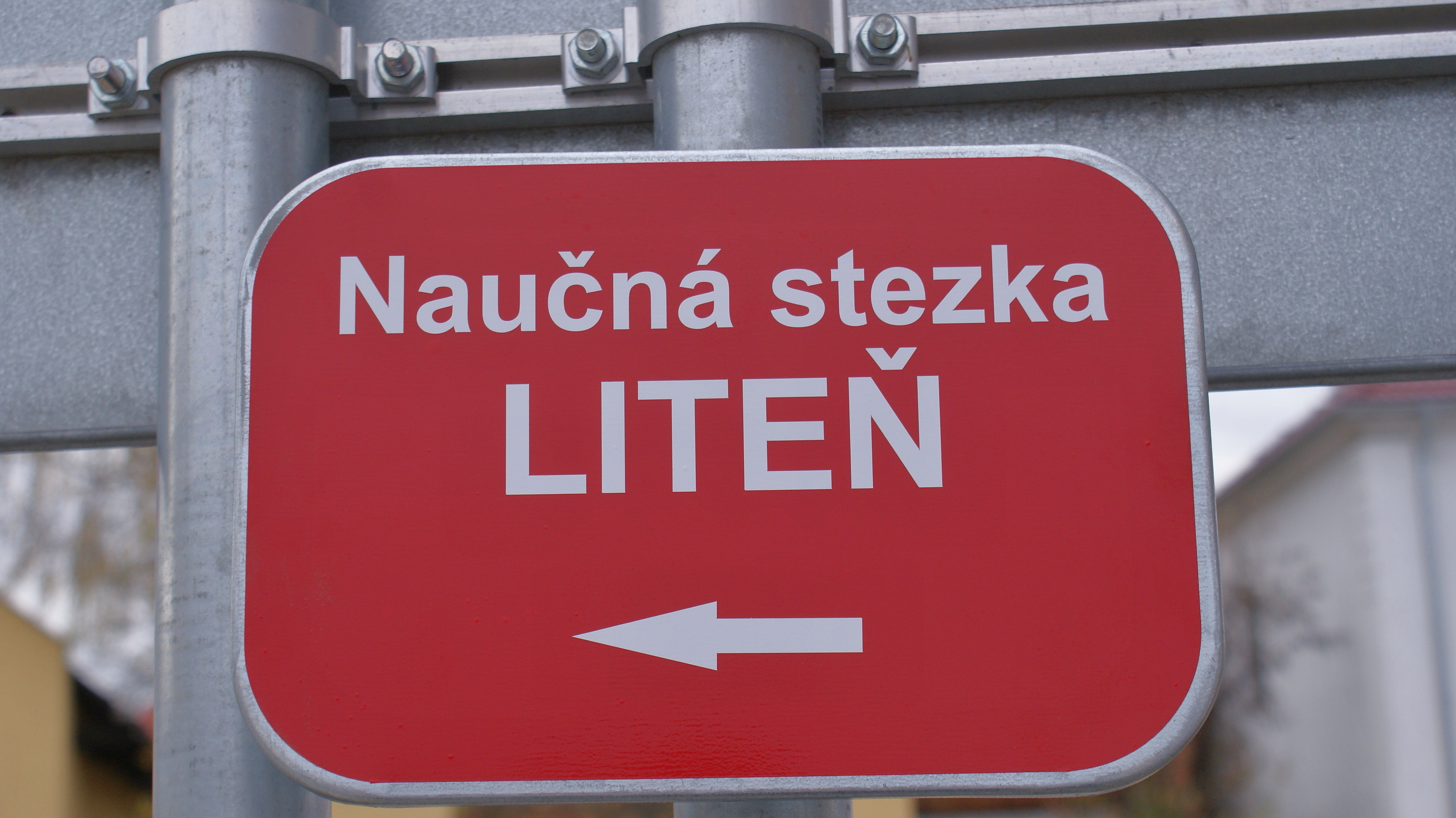 Directional signs of Liteň educational trail